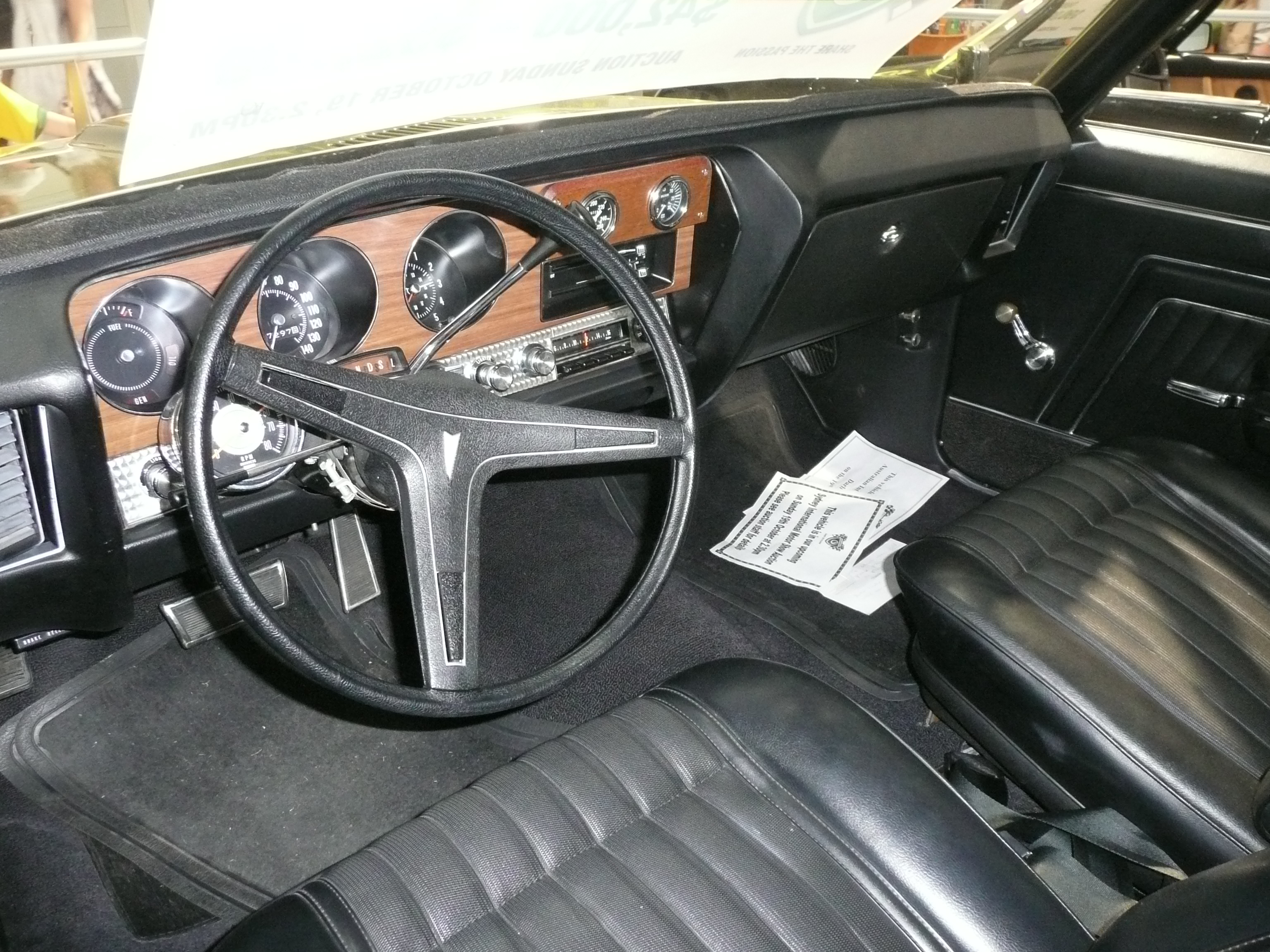 1970 Pontiac GTO 400 CI coupe. Photographed at the 2008 Australian International Motor Show, Sydney, New South Wales, Australia.